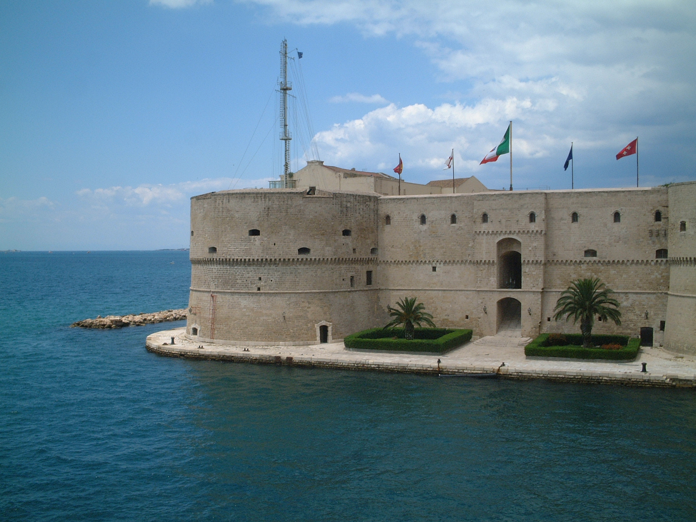 Castello Aragonese. Photo taken in Tarant Puglia Italy.